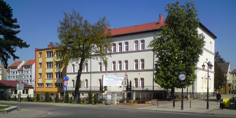 The Of the general education secondary school and High school number 3 in Gryfice (Poland)